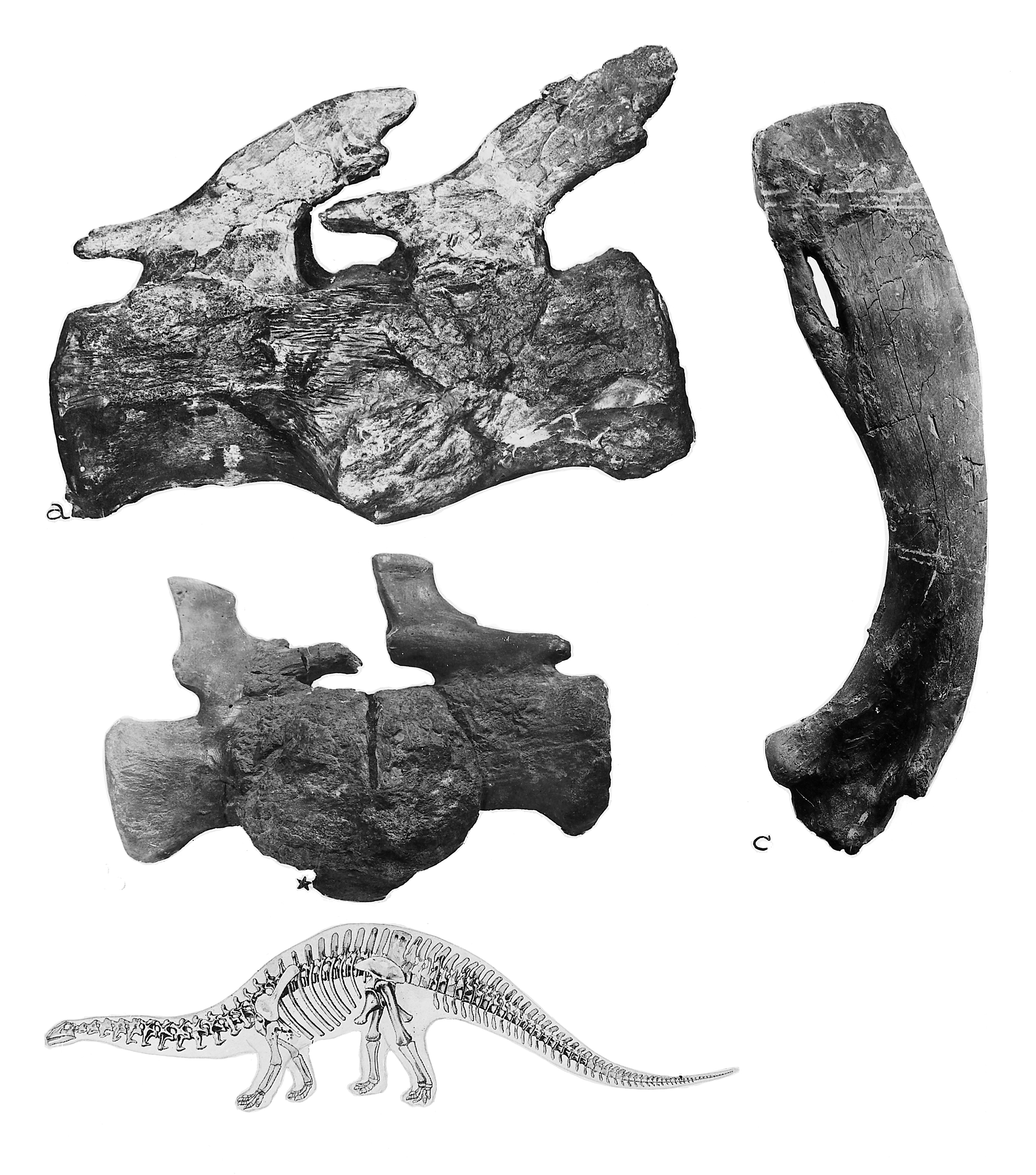 A-D Deforming arthritides in the dinosaur: a) Right side of Caudals 22 & 23 of the giant dinosaur etc. b) 2 caudal vertebrae of a sauropodus dinosaur etc. c) Scapula of a large dinosaur etc. d) Outline figure etc. General Collections Keywords: paleontological evidences of disease; prehistoric archaeology; ostemyelitis; Moodie, Roy Lee; Paleontology